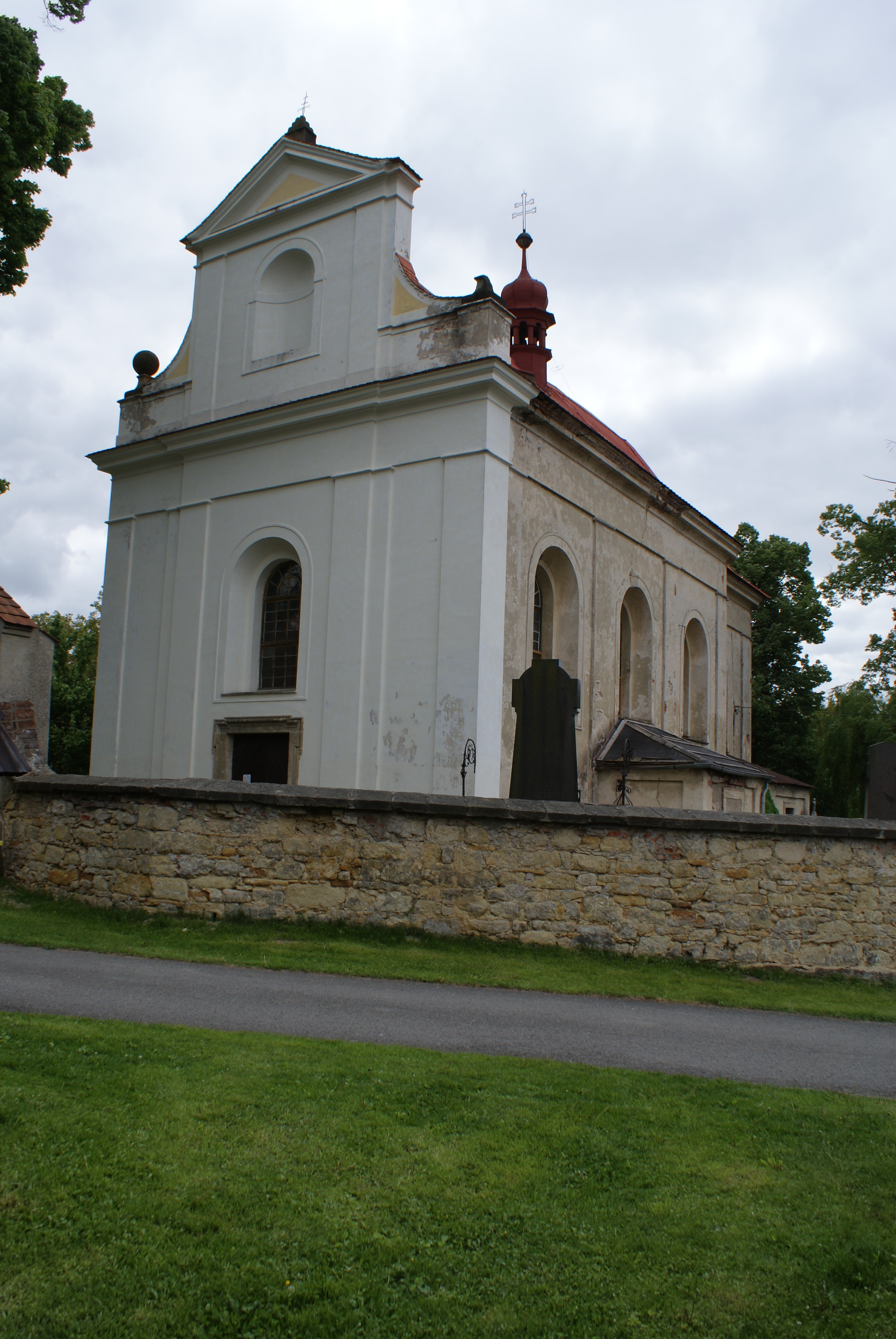 Sudoměř, Mladá Boleslav district, Czech Republic, Nativity of Mary church.